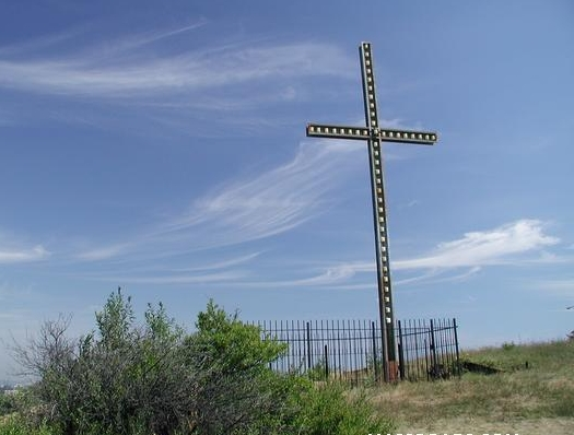 Famous cross on the hill, Orient Heights, East Boston. This steel cross replaced a wooden one placed on the site by the Madonna Shrine. While the cross is also near the place where the second battle of the Revolutionary War, the Battle of Chelsea Creek (May 27, 1775 took place, it does not commemorate that battle.